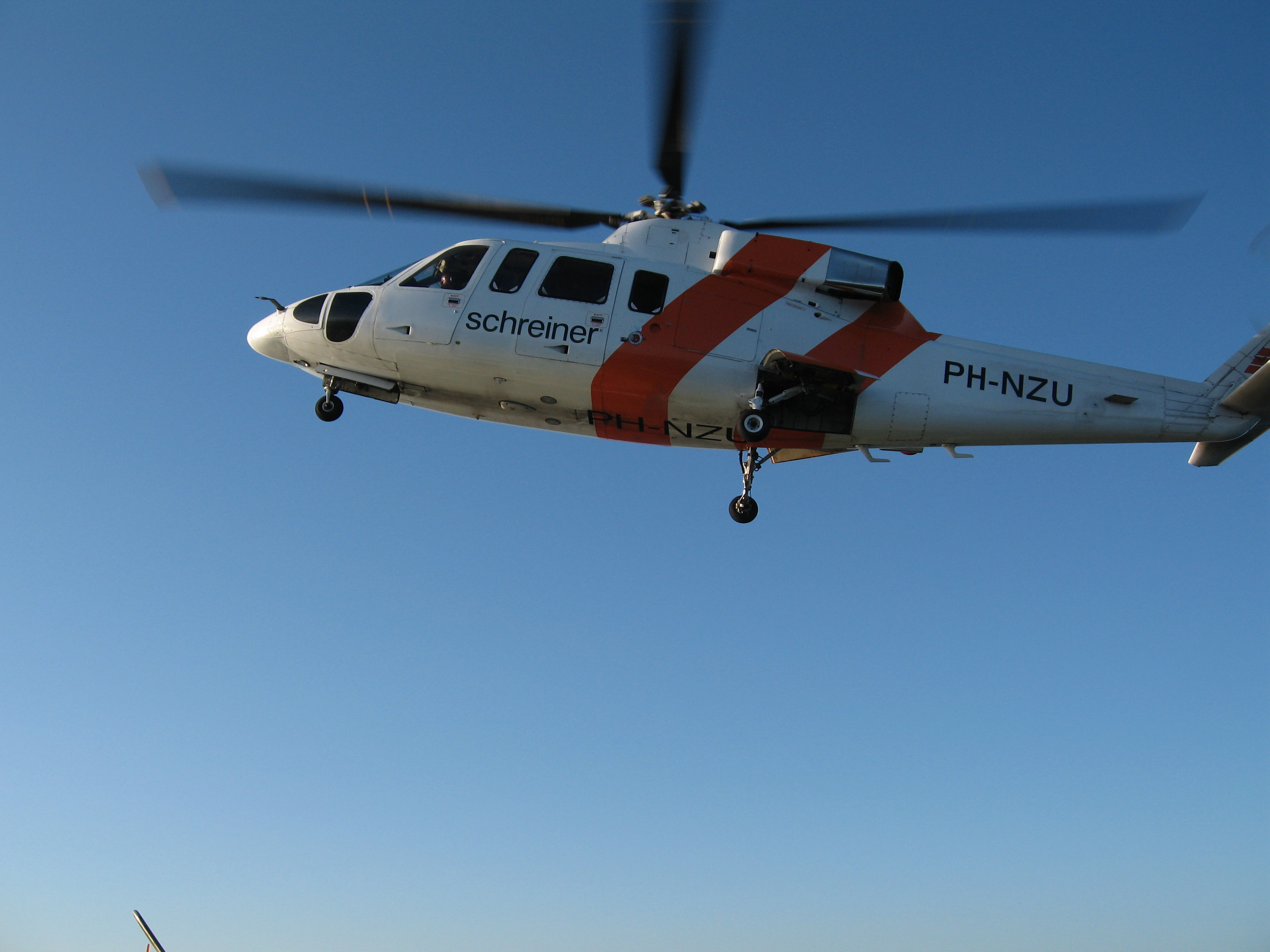 Schreiner Helicopter Sikorsky S-76 (PH-NZU)